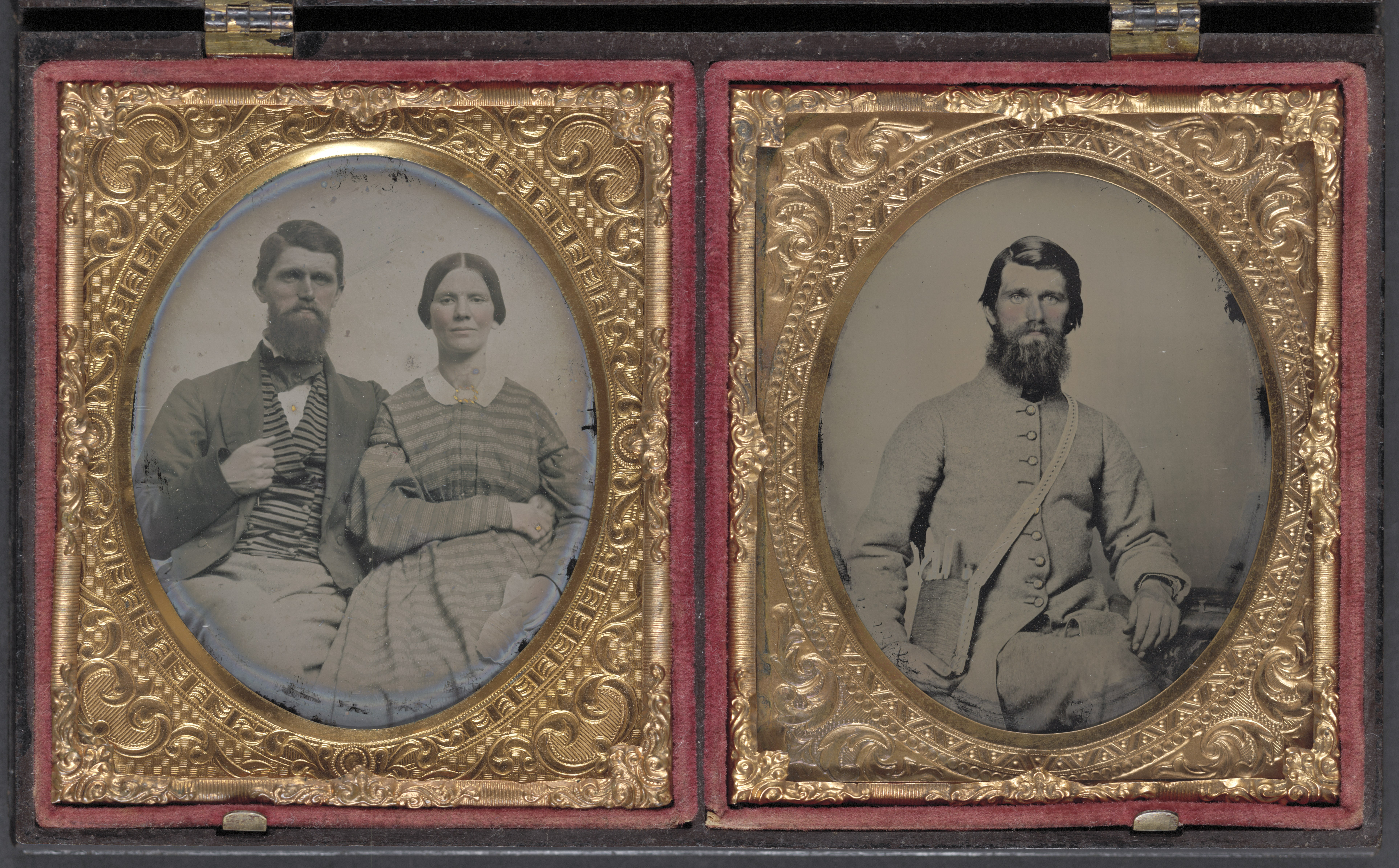 Title: Dr. Alexander Harris of 15th Virginia Infantry Regiment in uniform and Dr. Harris with his wife after the war Abstract/medium: 2 photographs : sixth-plate ambrotype, hand-colored ; 9.5 x 15.9 cm (case)